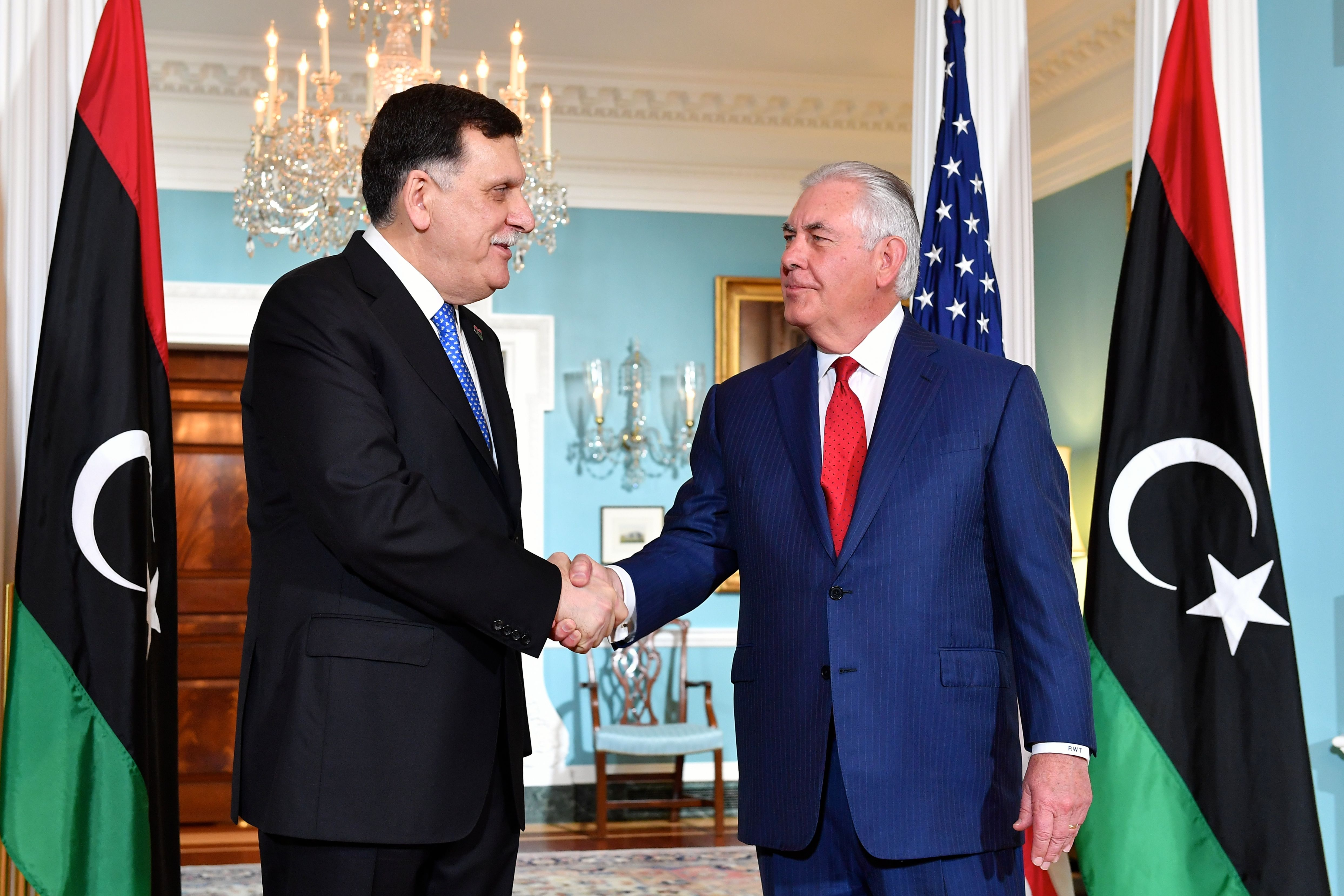 U.S. Secretary of State Rex Tillerson meets with Libyan Prime Minister Fayez al-Sarraj at the U.S. Department of State in Washington, D.C. on December 1, 2017. [State Department Photo/ Public Domain]